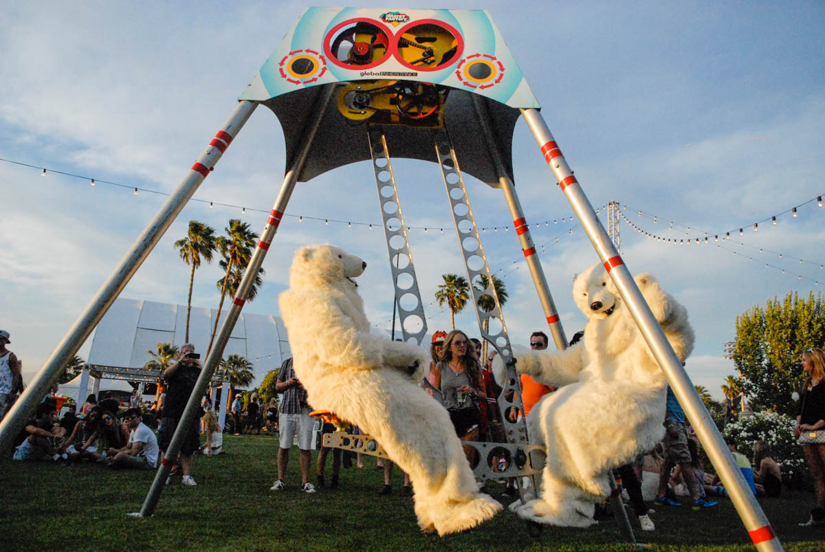 Global Inheritance photograph from Coachella 2013